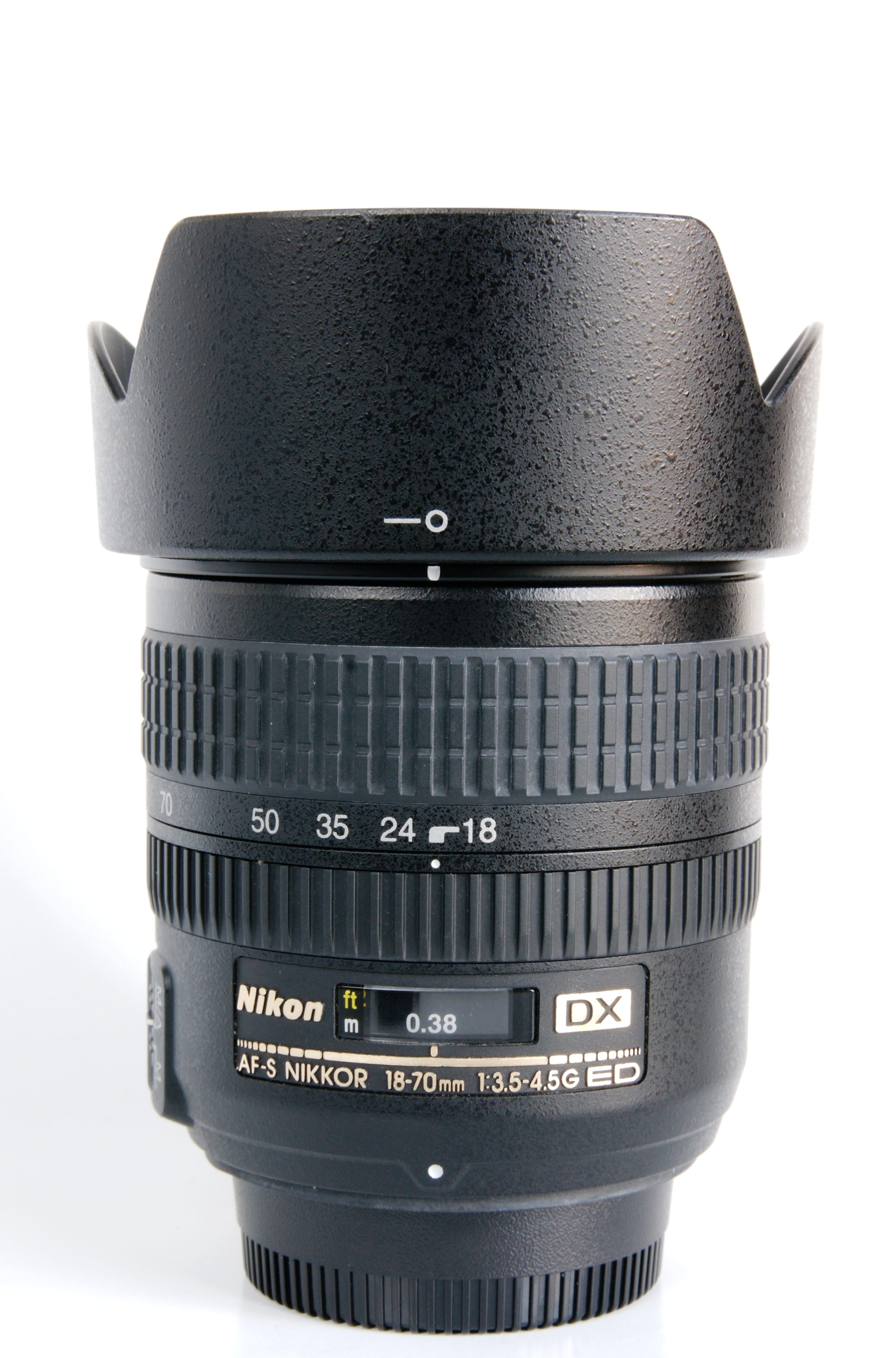 Zoom lens Nikkor AF-S DX 18-70 mm f3.5-4.5G ED-IF with HB-32 lens hood.